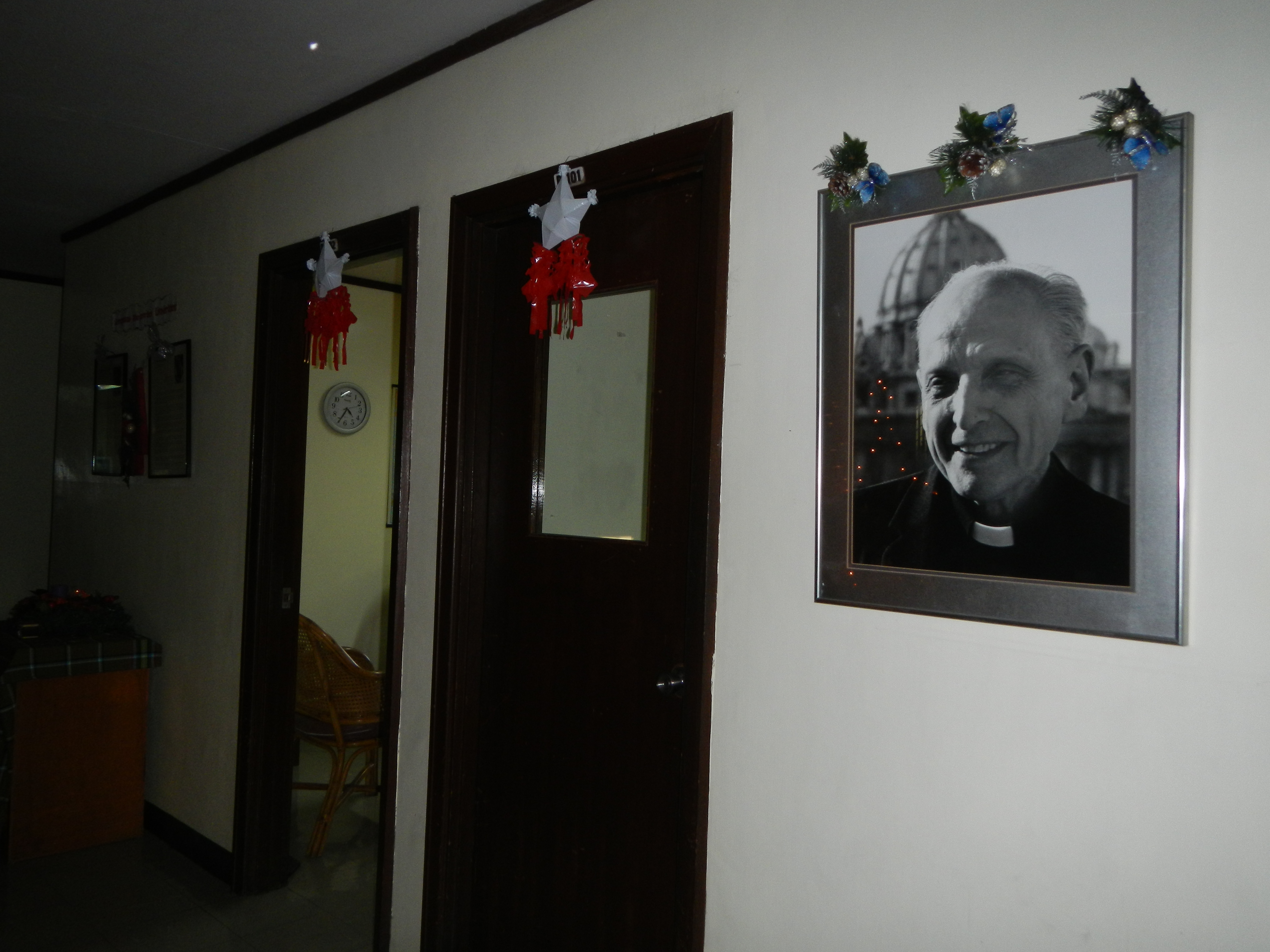 [1]Loyola Schools